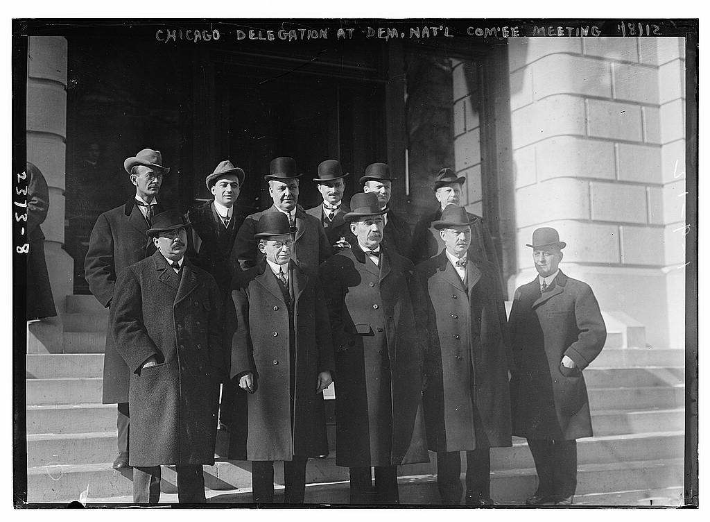 Chicago delegation at the Democratic National Committee meeting on January 8, 1912 Bain News Service,, publisher. Chicago delegation at Dem. Nat'l Com'ee Meeting 1912 1912 (date created or published later by Bain) 1 negative : glass ; 5 x 7 in. or smaller. Notes: Title from unverified data provided by the Bain News Service on the negatives or caption cards. Forms part of: George Grantham Bain Collection (Library of Congress). Format: Glass negatives. Repository: Library of Congress, Prints and Photographs Division, Washington, D.C. 20540 USA, General information about the Bain Collection is available at Persistent URL: Call Number: LC-B2- 2373-8